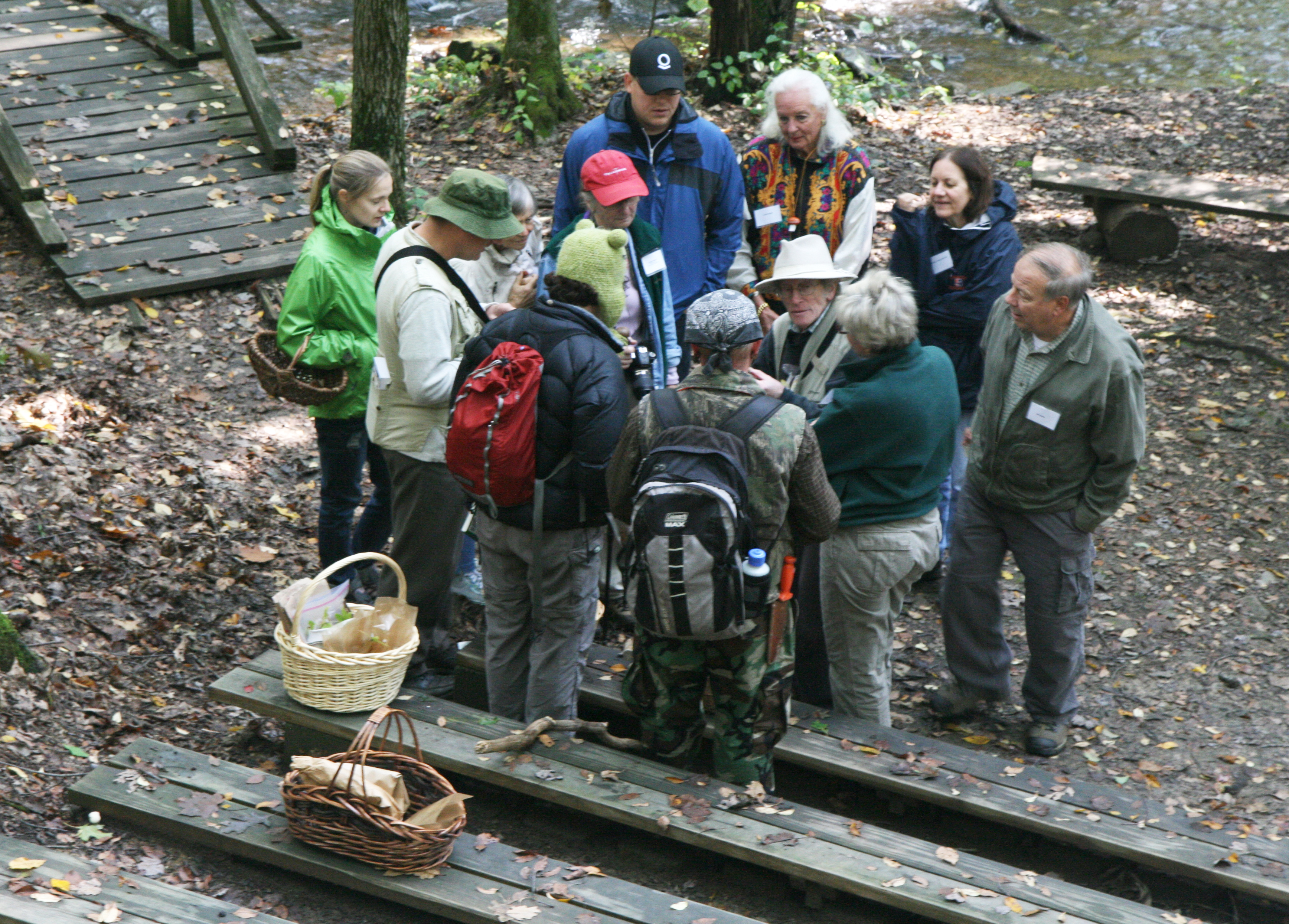 Mushroom expert Gary Lincoff lectures during a mushroom foray in Boswell, Pennsylvania.